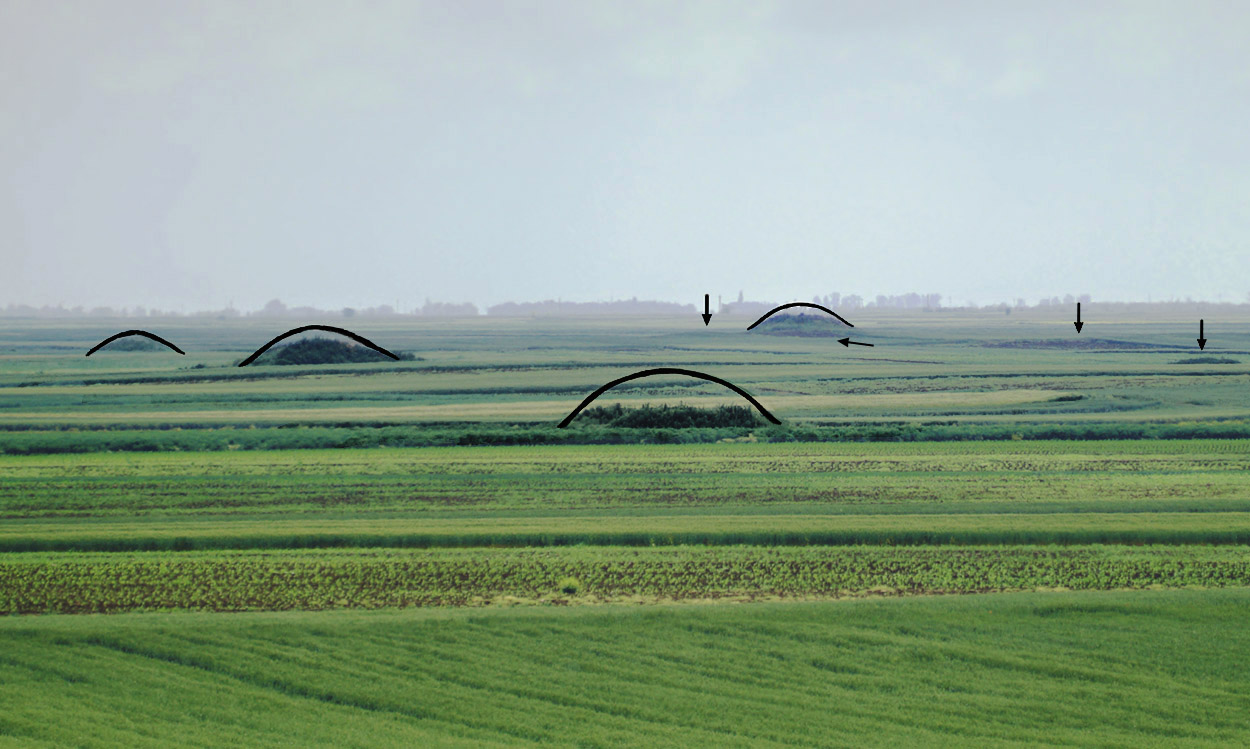 The old watchills were severely damaged by unknown criminal offenders. This picture is an attempt to reconstruct their real height before the awful disturbance that involved removing half of the dirt from mounds. The intervention with use of heavy equipment took place in near past, probably between 1990 and 2000.Српски (ћирилица): Непознати починиоци су у намери да их опљачкају, већину банатских хумки нарушили употребом тешке механизације. Овде је приказан покушај да се рекоструише њихова оригинална висина пре ове интервенције која се систематски одигравала највероватније пре једне- или две деценије.